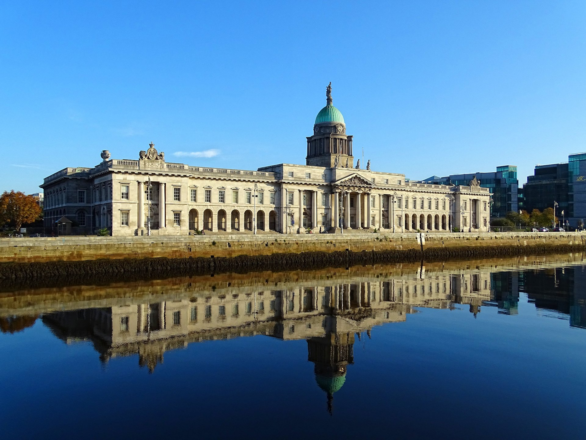 The Custom House in Dublin seen early in the morning.